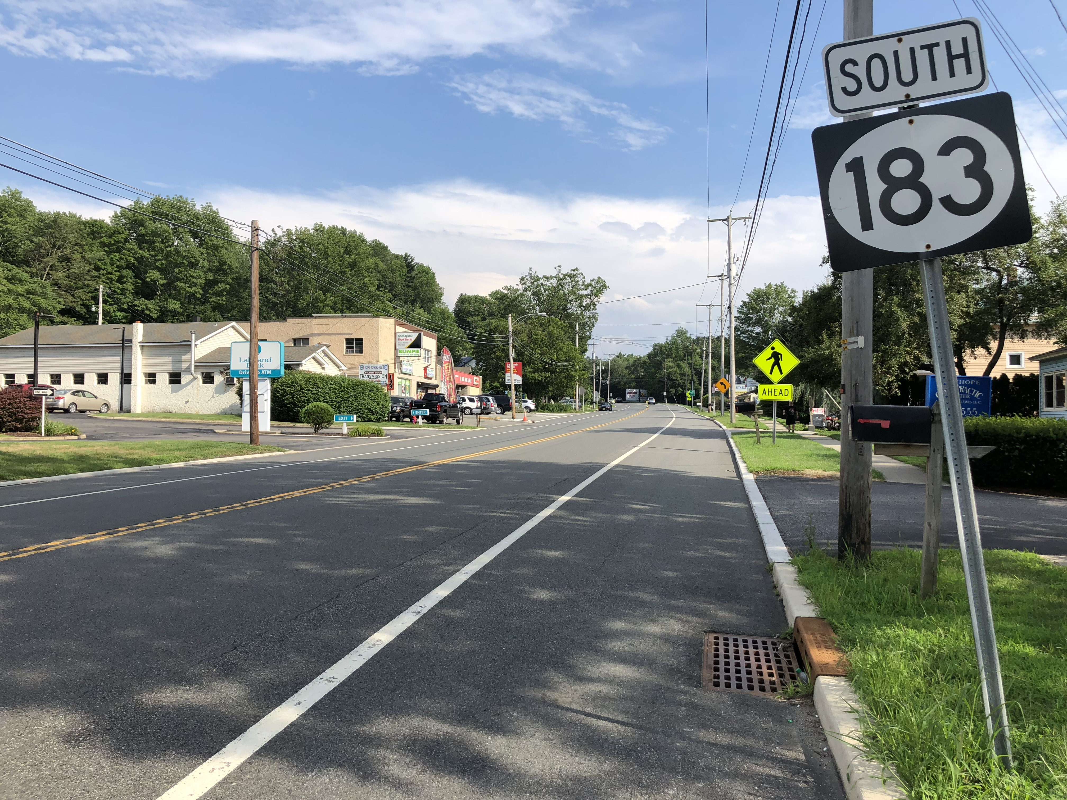 View south along New Jersey State Route 183 (Ledgewood Avenue) just south of Dell Road in Stanhope, Sussex County, New Jersey